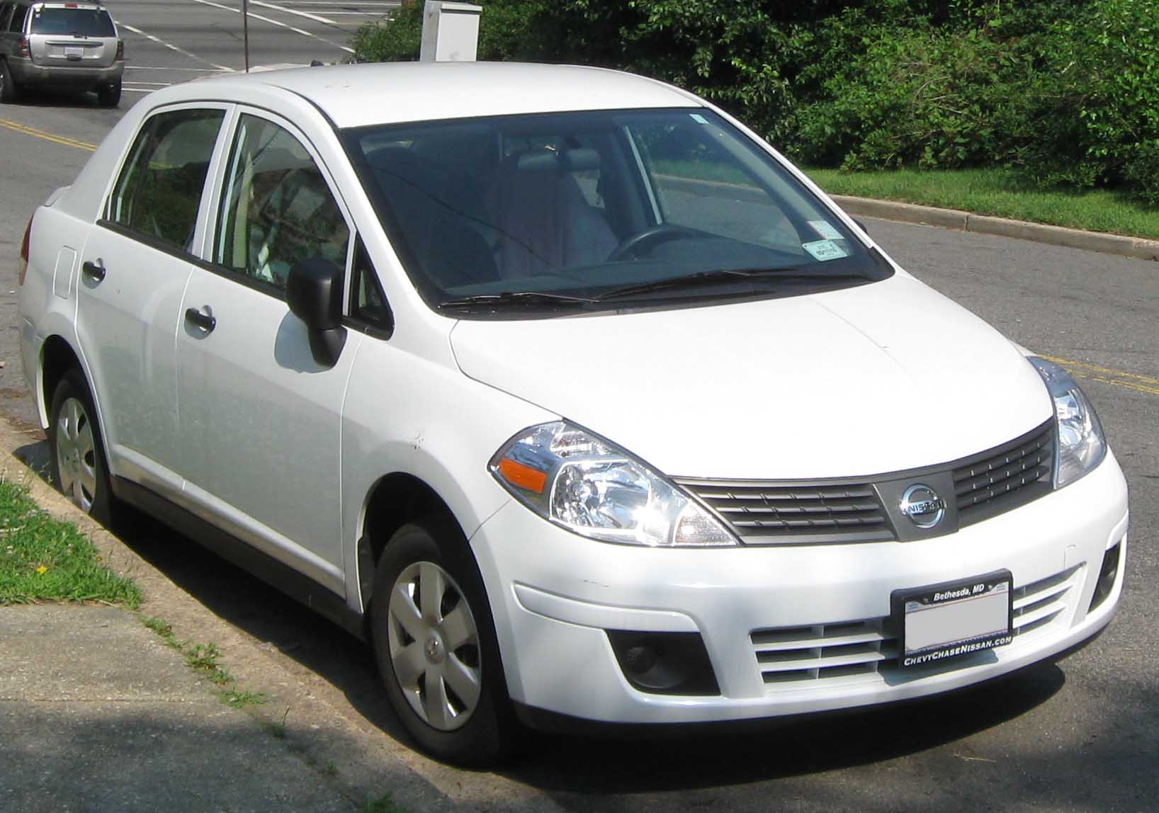 2009 Nissan Versa photographed in Washington, D.C., USA.